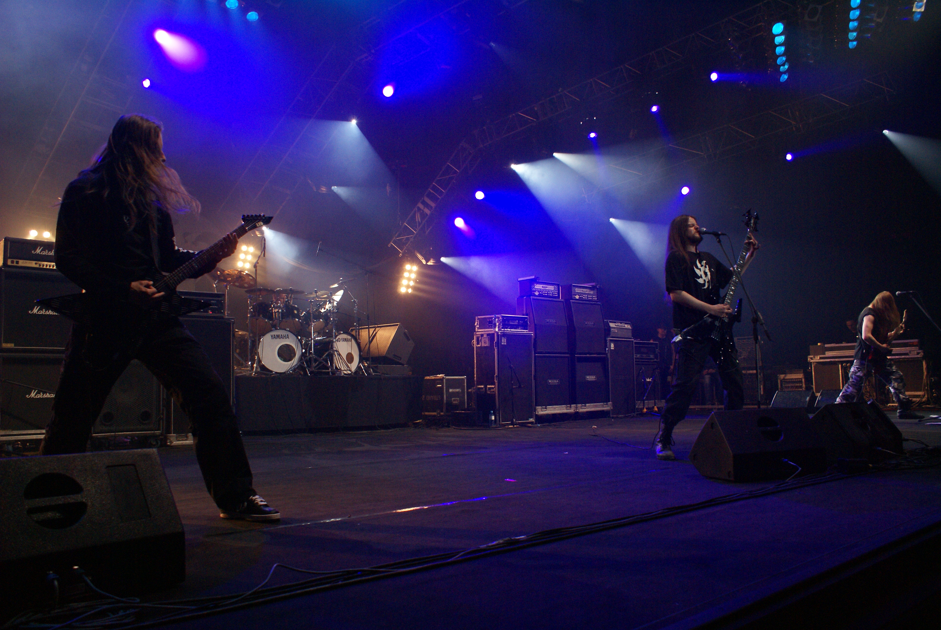 Metal band Zyklon during Metalmania 2007 festival